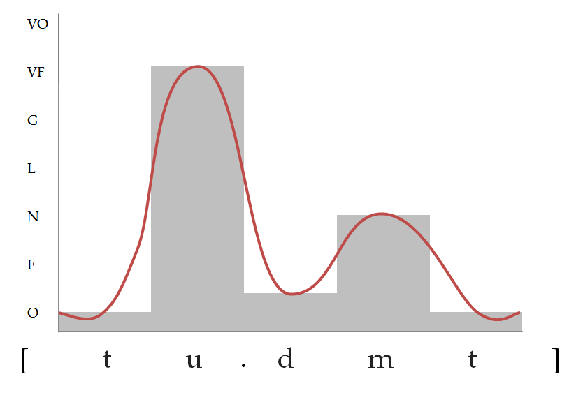 Sonority curve of the compound [tu.dmt] in Shilha language, meaning 'a little face' (according to a graduated sonority scale).